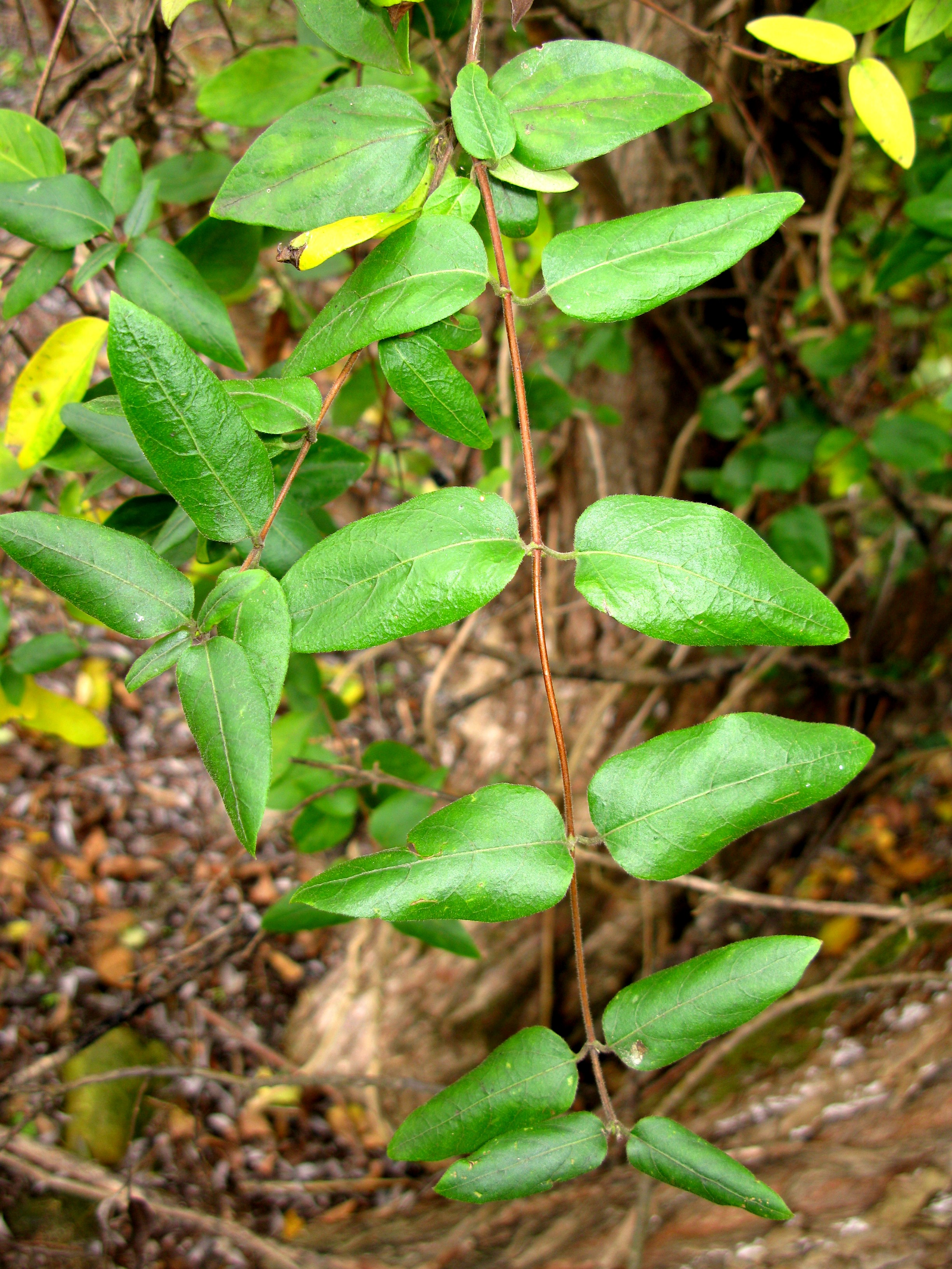 Lonicera japonica,Leaf ,Aizu area, Fukushima pref., Japan